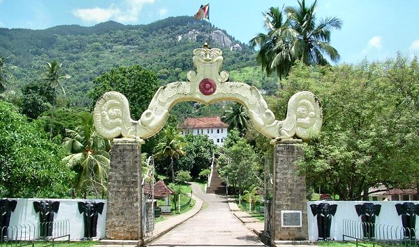 Aluviharaya rock cave temple